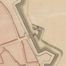 Fortifikation of Sluck, Belarus